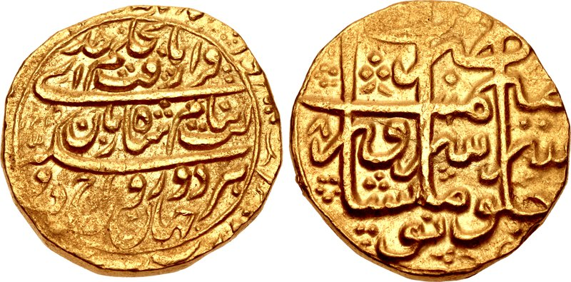 AFGHANISTAN, Durrani Shahs. Zaman Shah. AH 1207-1216 / AD 1793-1801. AV Mohur (21mm, 10.95 g, 6h). Peshawar mint. Dually dated AH 1215 and RY 8 (25 May AD 1800-13 May AD 1801). SICA 9, –; Album 3106; KM 716; Friedberg 6. EF, some weak strike.